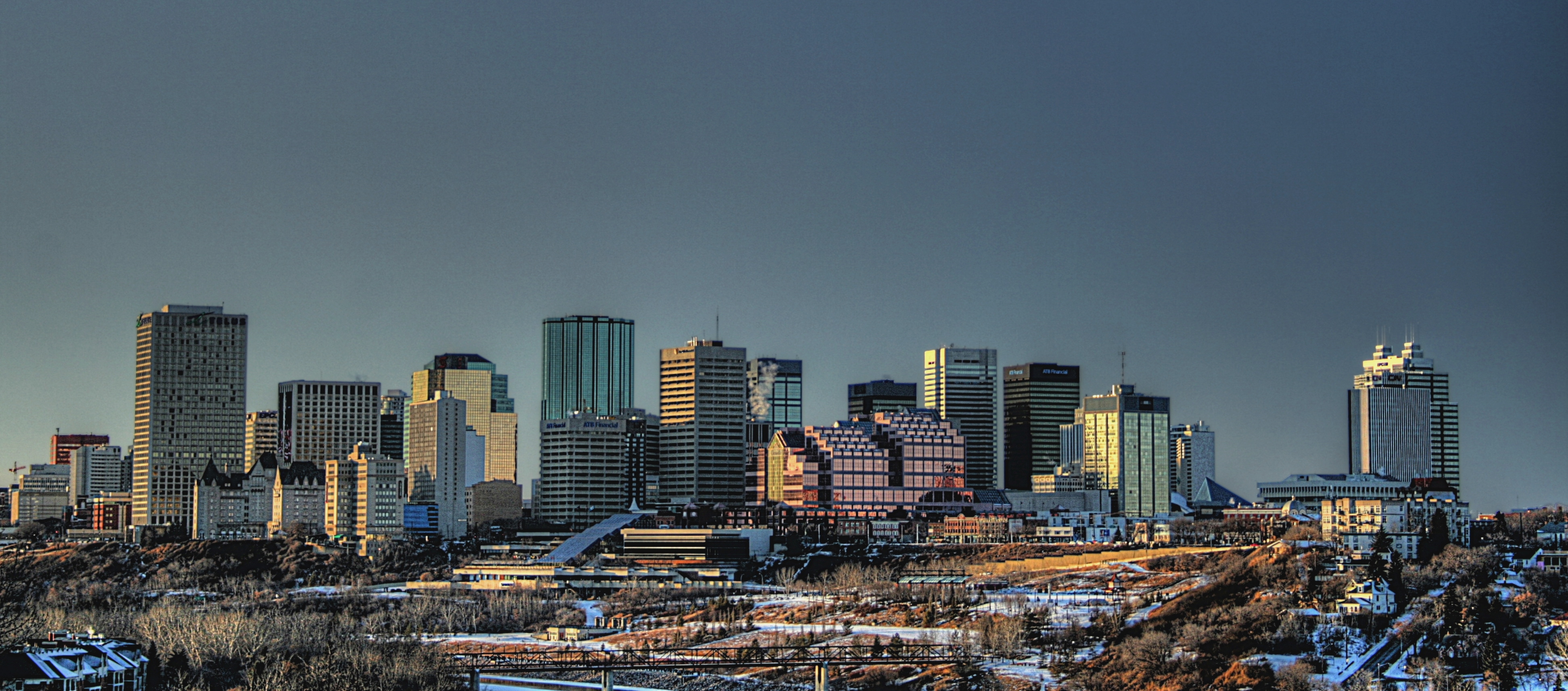 Downtown skyline of Edmonton, Alberta, Canada.